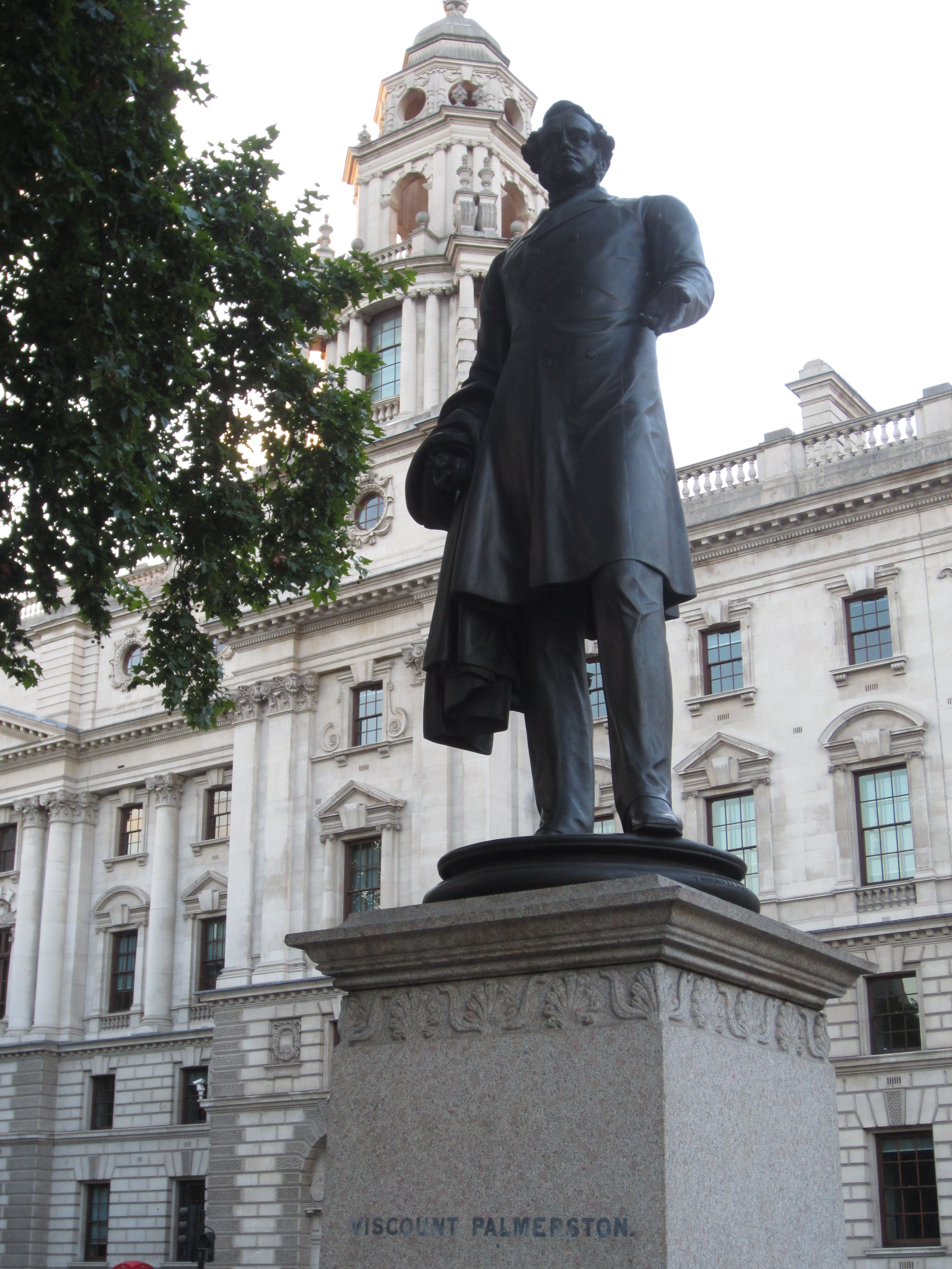 Parliament Square, London (2014)